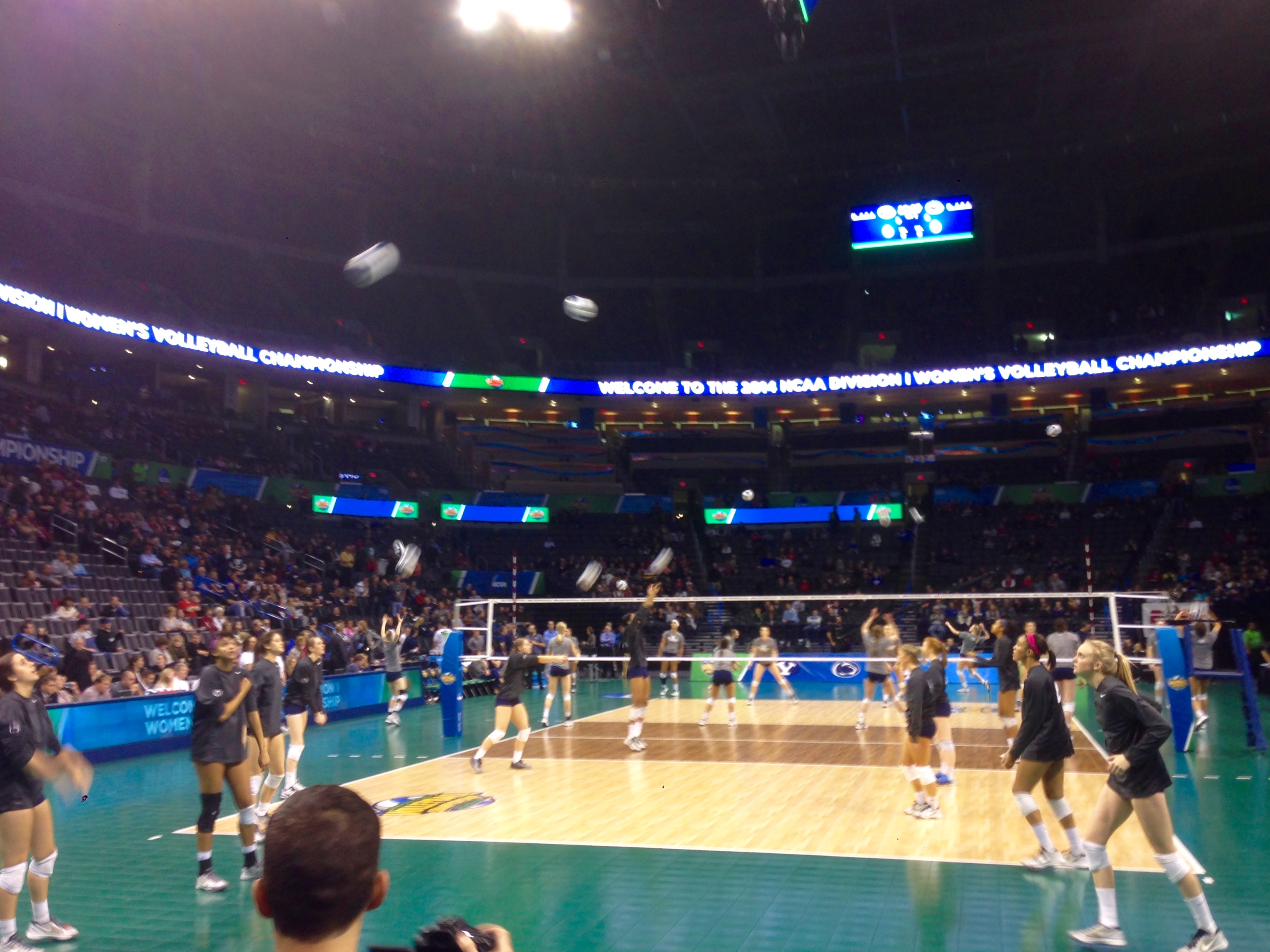 Penn State Women's Volleyball warming up prior to the 2014 Women's Volleyball National Championship vs. BYU on 12/20/2014